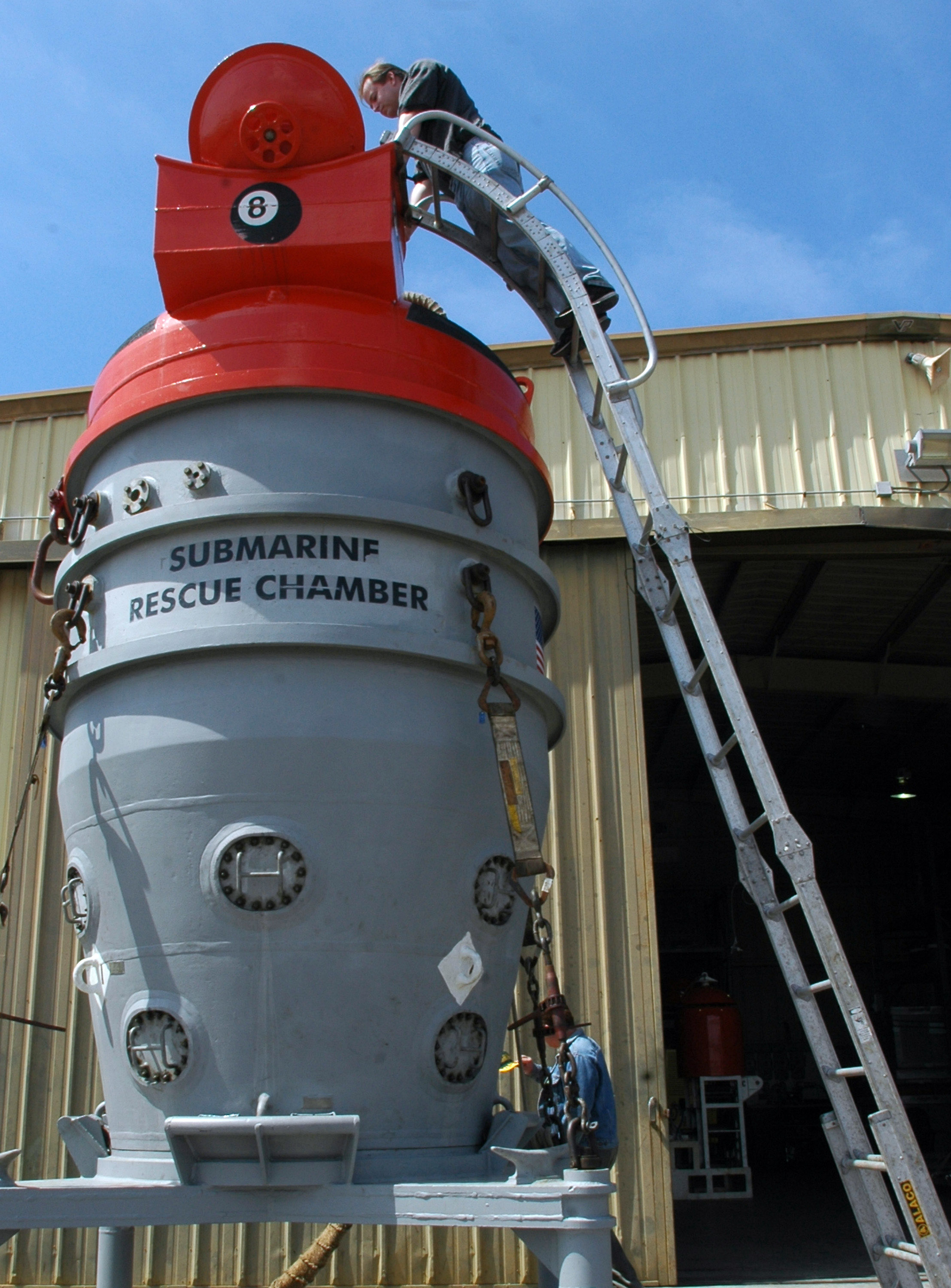 Submarine Rescue Chamber (original caption: “070505-N-4163T-071 SAN DIEGO (May 5, 2007) - A visitor at Deep Submergence Unit (DSU), located on Naval Air Station North Island, takes a peek at the interior of a Submarine Rescue Chamber (SRC) that is used to rescue the crew from a submerged disabled submarine. DSU invited more than 1,000 visitors to tour its facility, May 4-5, during the Submarine Rescue Day that showcased the personnel, equipment, and capabilities used to perform worldwide submarine rescues.”) This is an improved version of the McCann Submarine Rescue Chamber, developed in 1929 by Charles Momsen and Allan Rockwell McCann.